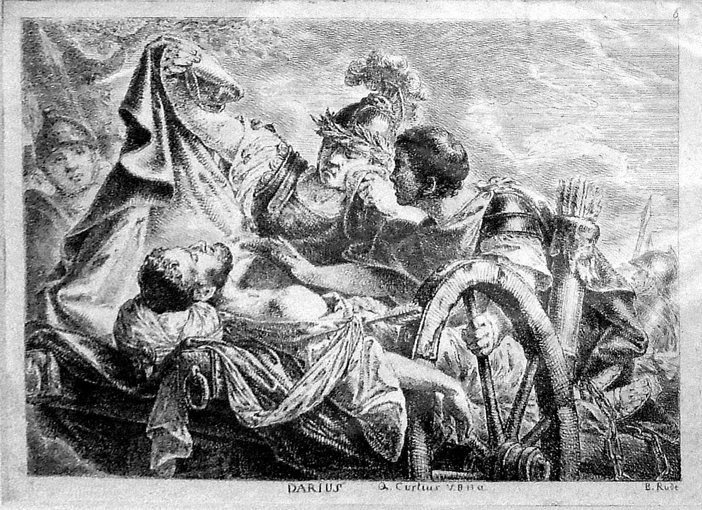 Alexander Covers the Body of Darius with His Cloak, engraving by Bernhard Rode 1769-70. "Darius on a wagon, in golden shackles and killed by an arrow. His tiara has fallen from his head. Alexander spills tears over him and covers him with his purple cloak. The Greek soldier who succored him with a drink of water shortly before his death and led Alexander to him, sees with a look of pity that he has already died." (Catalog of the Exhibition of the Berlin Academy, 1794, 3, in Die Kataloge der Berliner Akademie-Ausstellungen 1786-1850, ed. by H. Börsch-Supan, vol. 1 [Berlin 1971].) Literary source: Quintus Rufus Curtius, The Life of Alexander the Great, Book 5, 13.